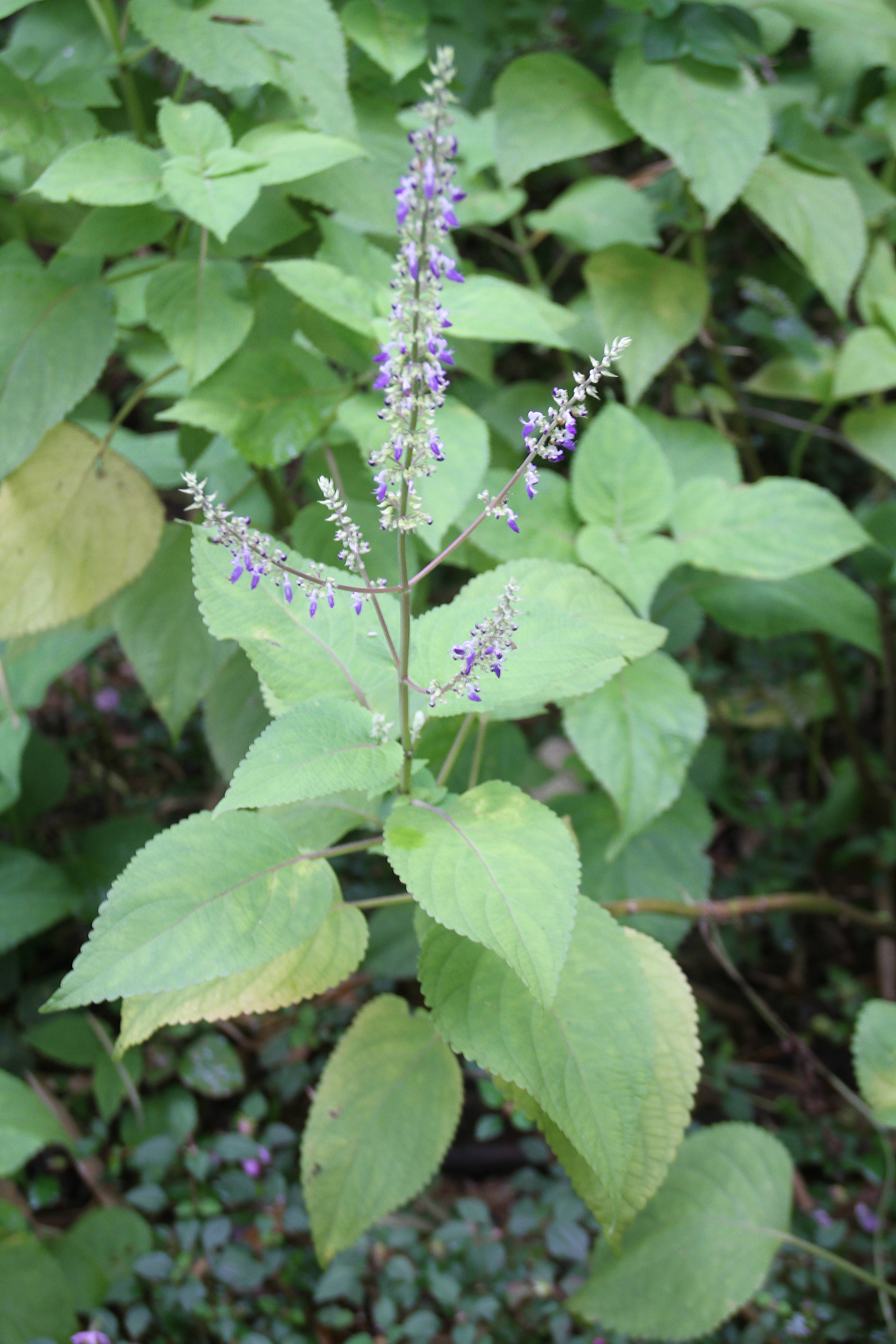 Plectranthus scutellarioides, in the El Yunque National Forest, eastern Puerto Rico.